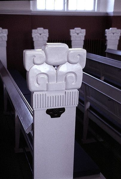 Skagen Kirke (church) in Frederikshavn Kommune.